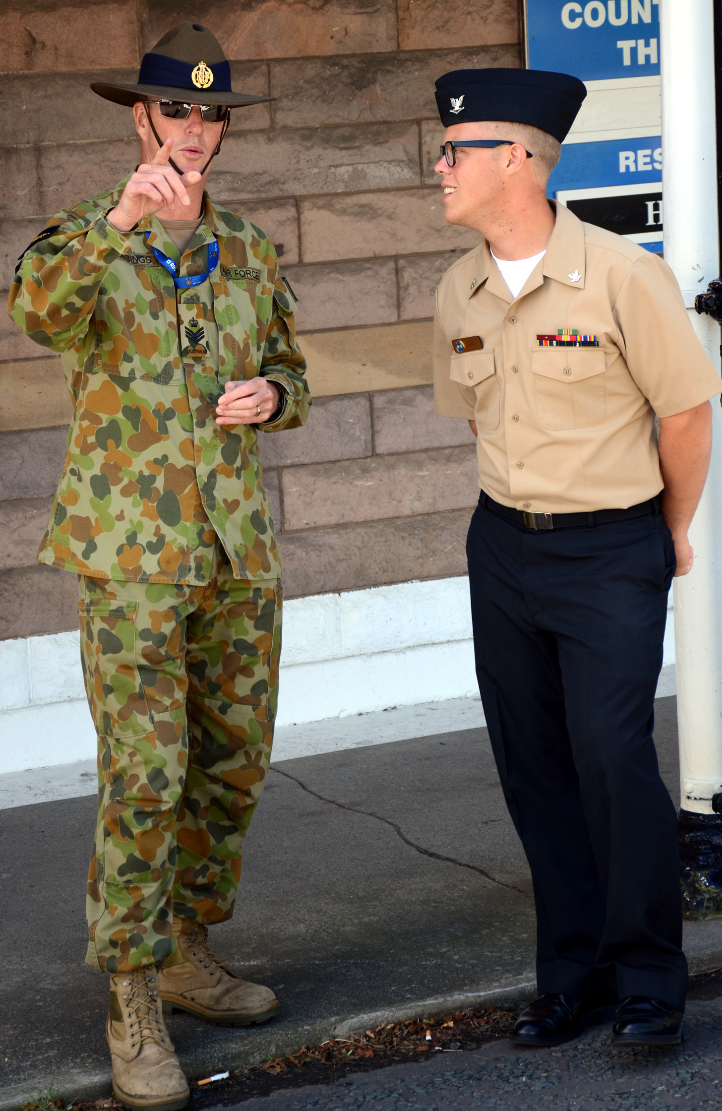 U.S. Navy Musician 3rd Class Hunt Gibson, right, with the U.S. Naval Forces Europe Band, talks with Royal Australian Air Force Flight Sgt. Eden Stubbings during a break from rehearsals for the Royal Edinburgh Military Tattoo in Edinburgh, Scotland, July 31, 2012.